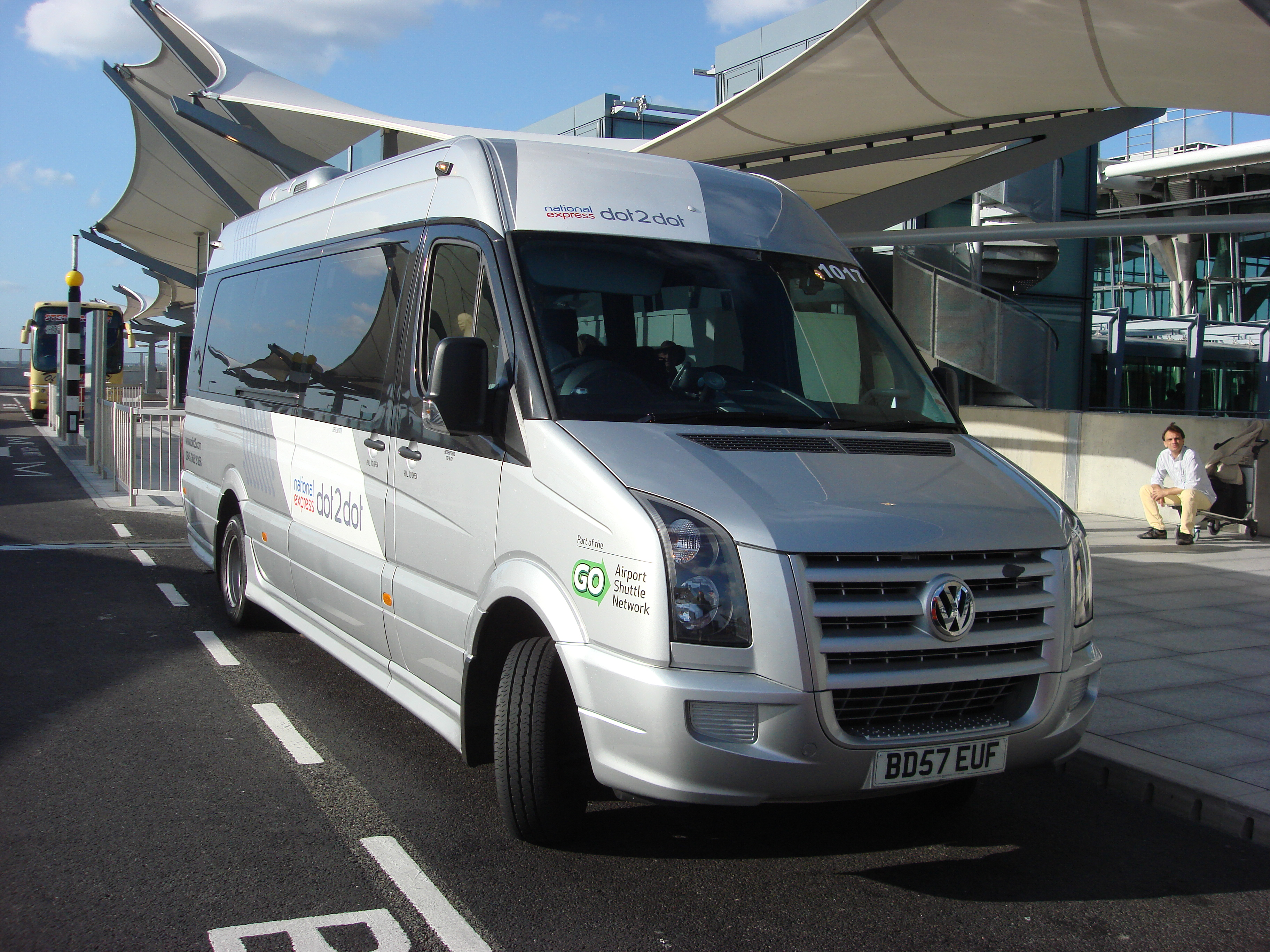 A National Express "dot2dot" vehicle at Heathrow terminal 5